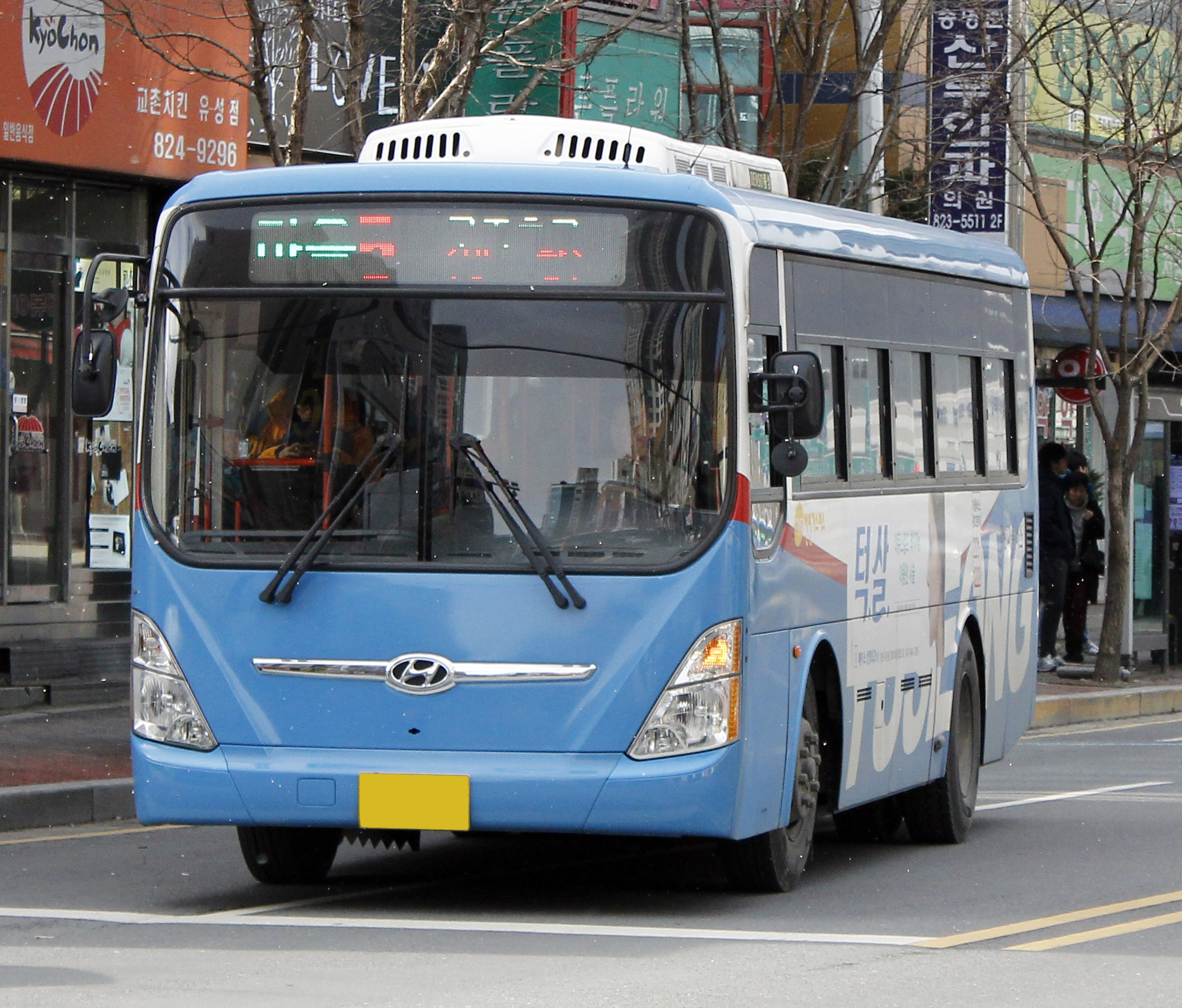 Yuseong Bus Route 05